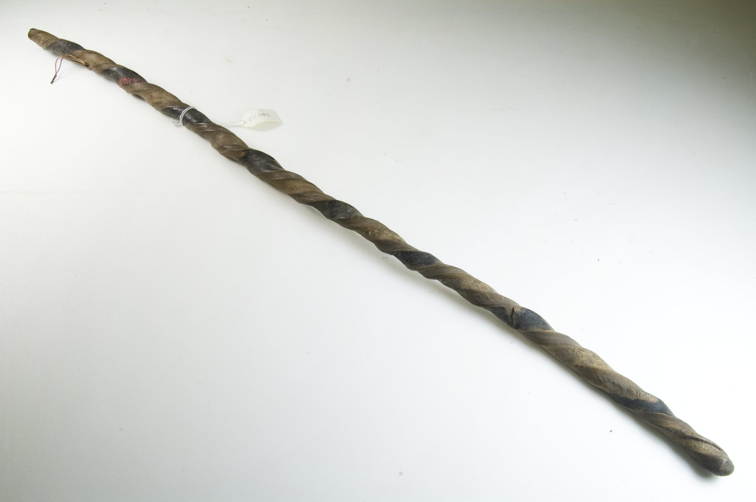 Twisted rhinoceros hide whip.